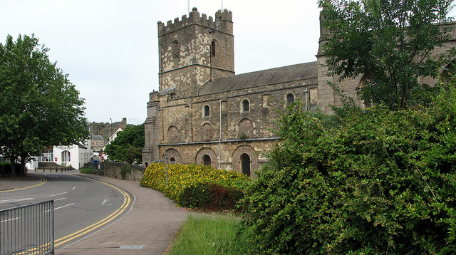 The Parish and Priory Church of St Mary, Chepstow